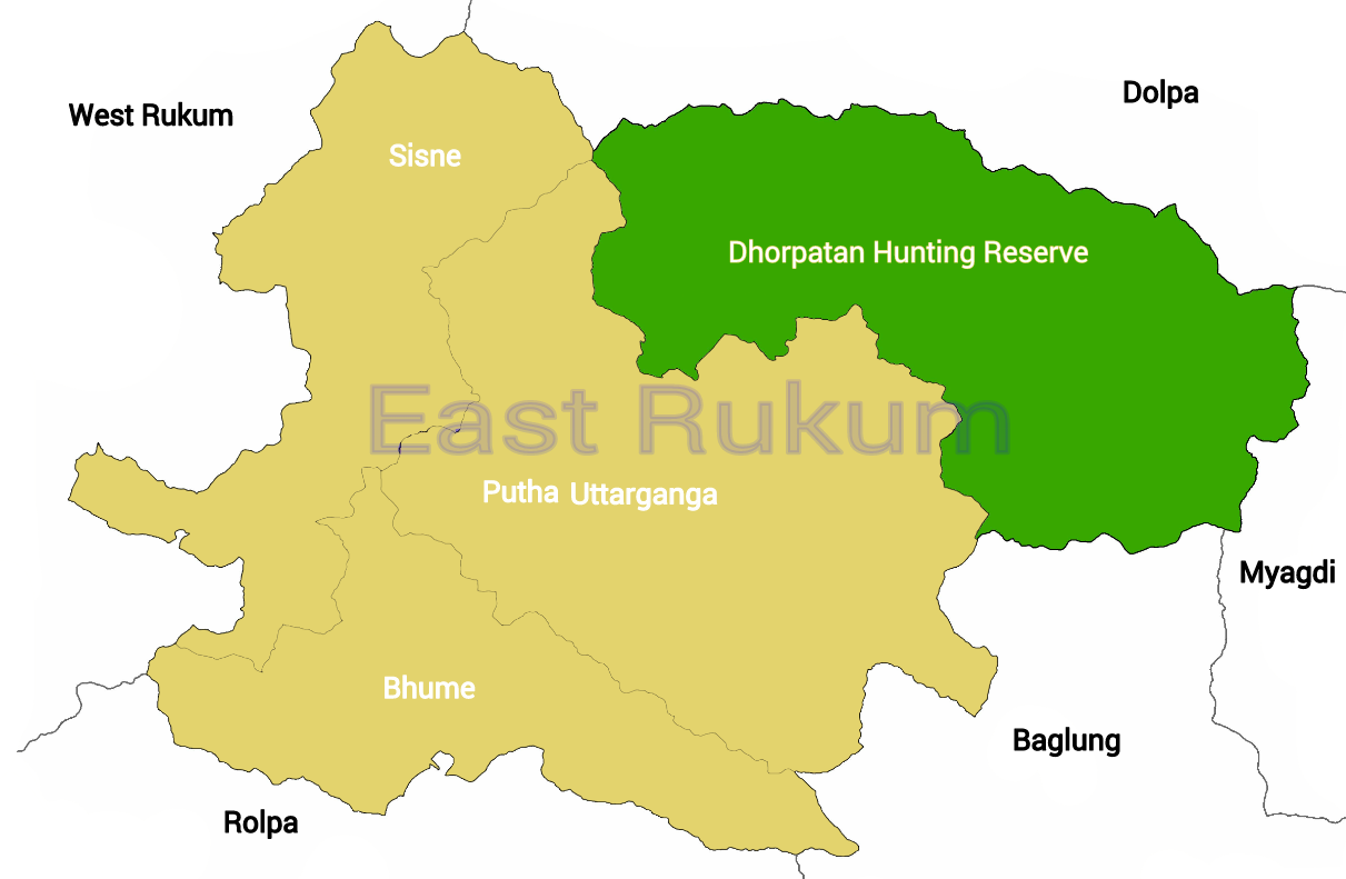 East Rukum District